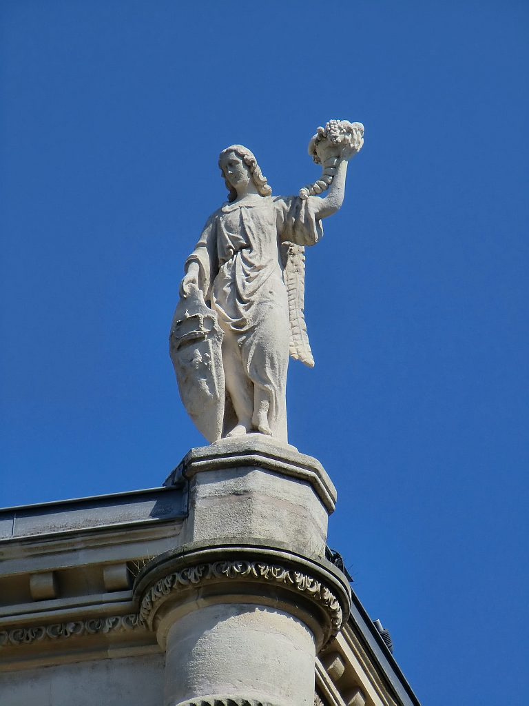 Detail on the Chambre des Députés in Luxemburg-City. The Chambre des Députés is the Parlament of Luxemburg